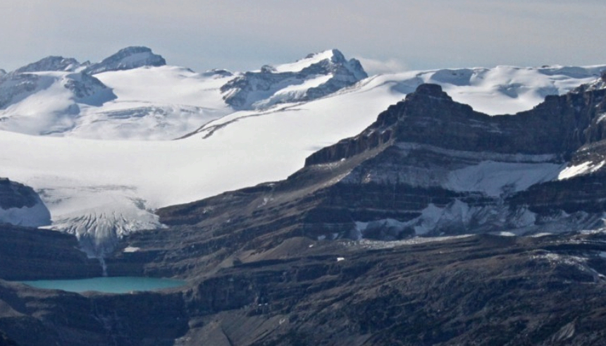 Mount Collie, Wapta Icefield, and Portal Peak seen from Cirque Peak. Banff Park, Canada